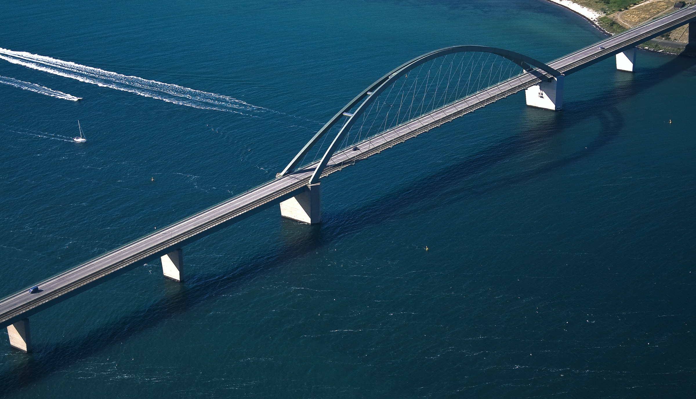 The "Fehmarnsundbruecke". Photographed from a sight-seeing airplane